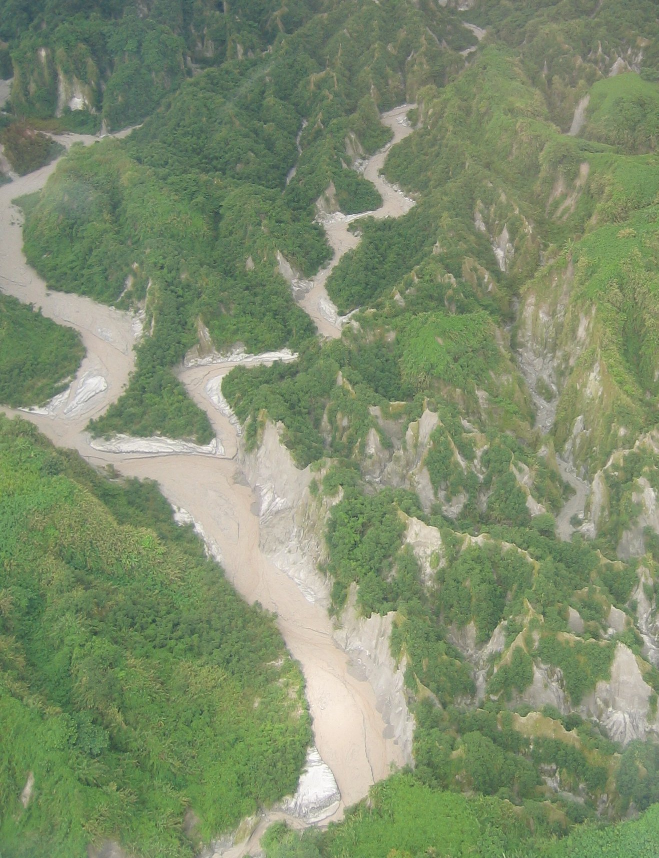 Lahar canyon on Mount Pinatubo, Luzon, Philippines during September 2006, aerial view